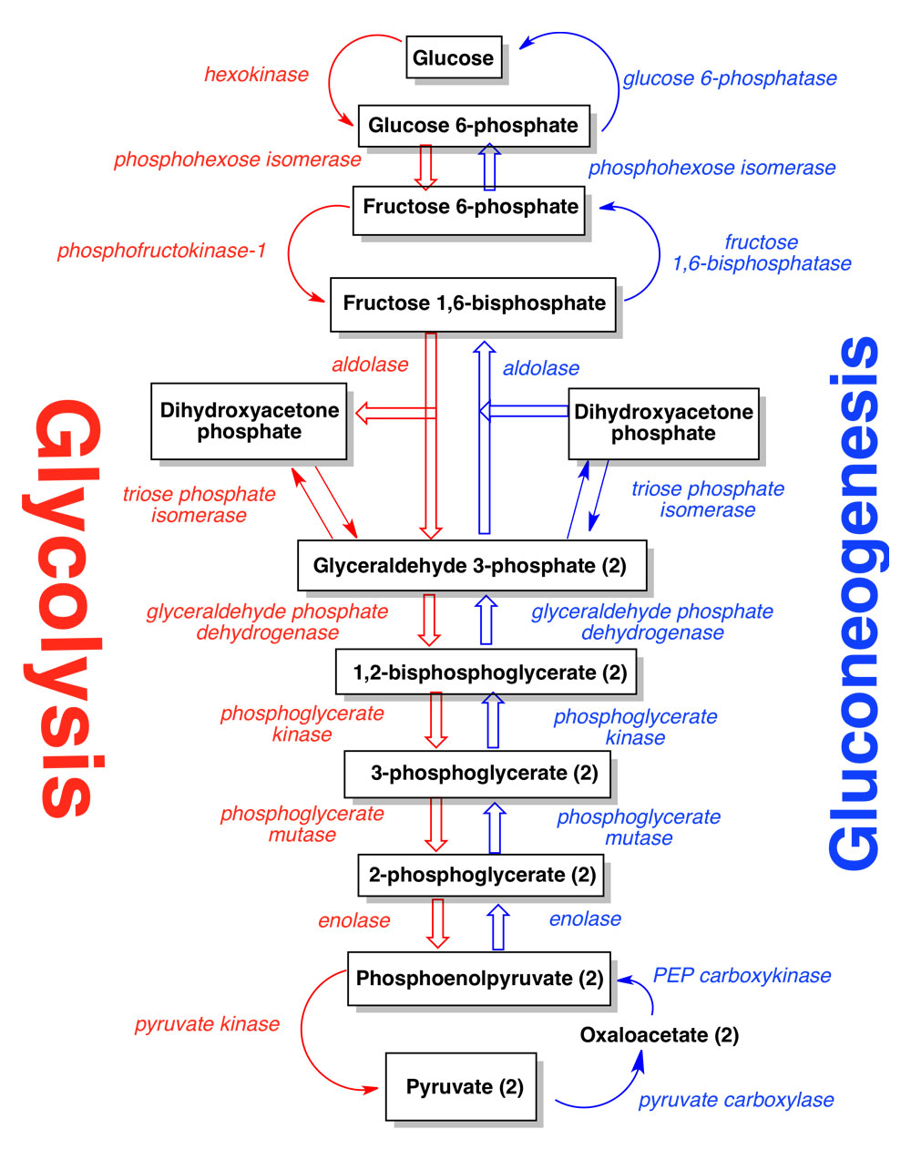 Diagram showing glycolytic and gluconeogenic pathways. Note that phosphoglycerate kinase is used in both directions.